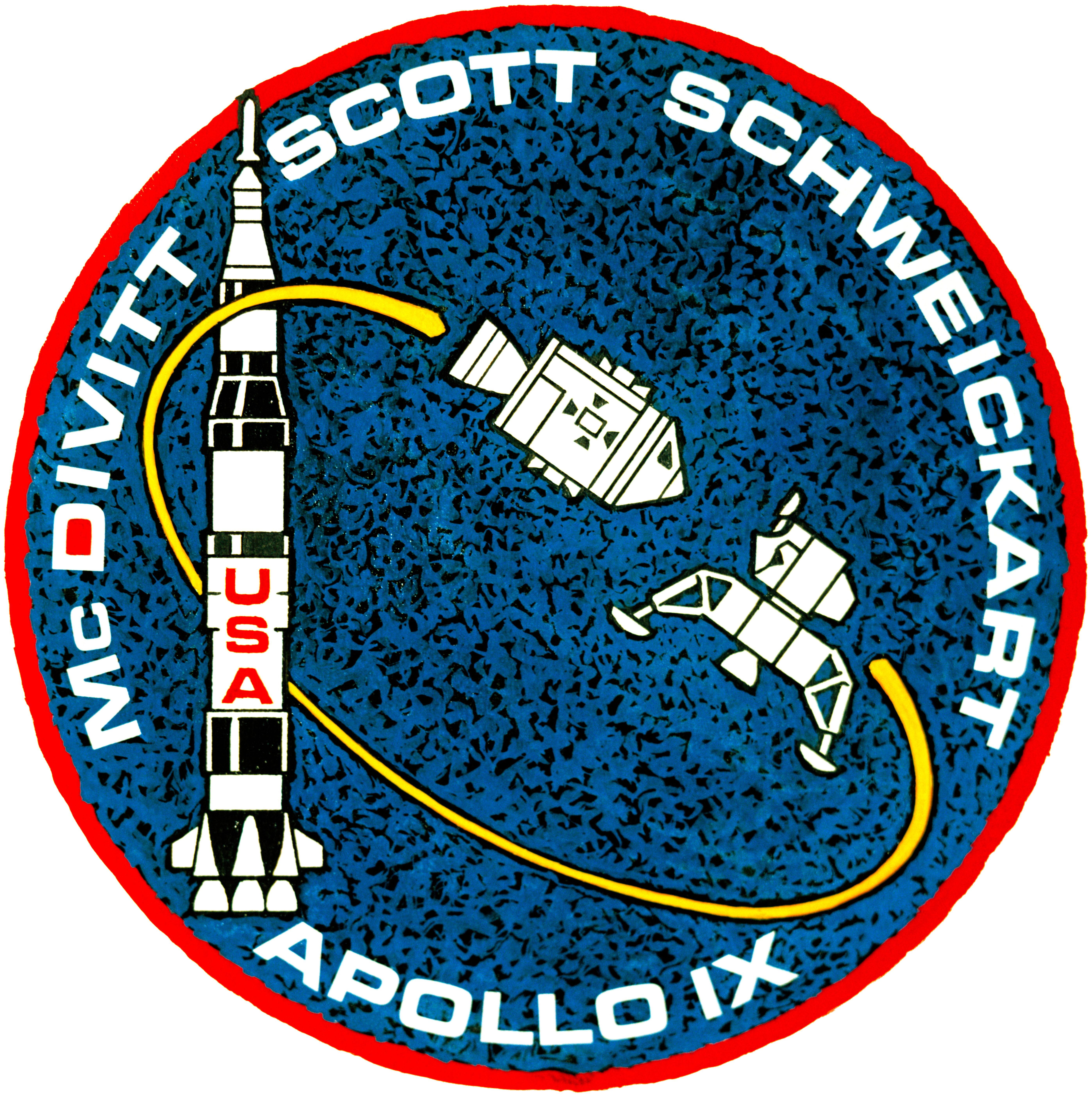 Apollo 9 Patch The insignia of the Apollo 9 space mission. The crew consist of astronauts James A. McDivitt, commander; David R. Scott, command module pilot; and Russell L. Schweickart, lunar module pilot. The Apollo 9 mission will evaluate spacecraft lunar module systems performance during manned Earth-orbital flight.